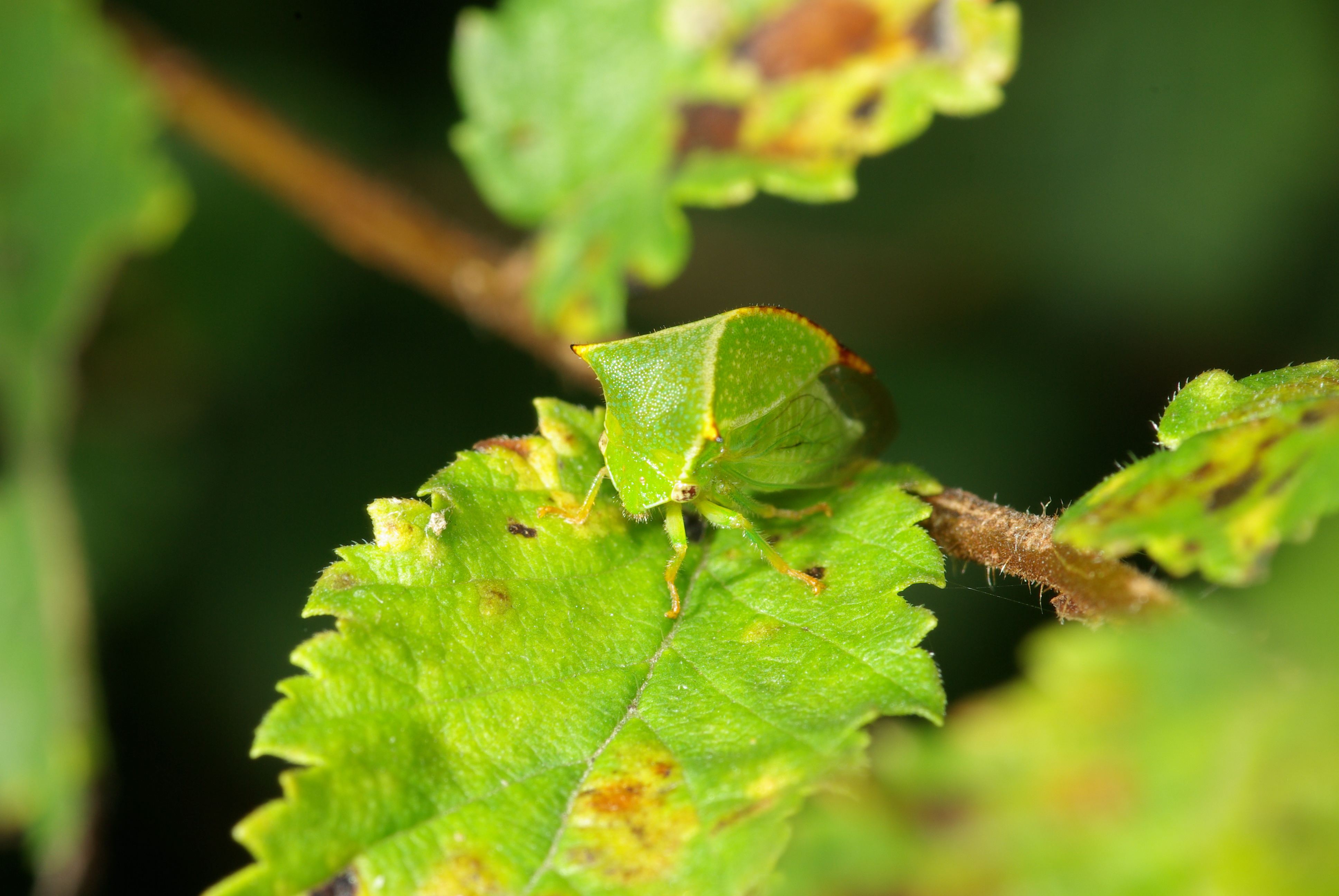 Stictocephala bisonia taken in Vendée, French.